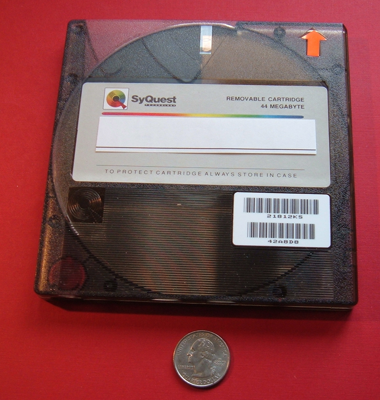 SyQuest removable disk cartridge, 44 megabyte capacity.